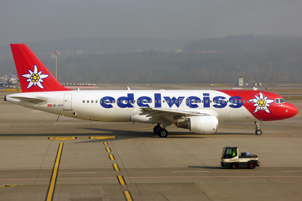 Edelweiss Air, HB-IHY, Airbus A320-214